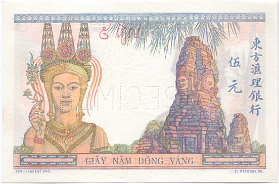 Face: woman with helmet and lance; denomination; Text: CINQ PIASTRES = Five piastres; BANQUE DE L'INDOCHINE = Bank of Indochina; L'ARTICLE 139 DU CODE PÉNAL PUNIT DES TRAVAUX FORCÉS CEUX QUI AURONT CONTREFAIT OU FALSIFIÉ LES BILLETS DE BANQUES AUTORISÉES PAR LA LOI = Article 139 of Penal Code punishes with the forced labour those who counterfeits or falsifies the bills of the banks authorized by the Law; LE PRÉSIDENT = President [signature: René Thion de la Chaume (on P-53/P-55a) or Marcel Borduge (on P-55b)]; LE DIRECTEUR GÉNÉRAL = General Director [signature: Paul Baudouin]; SÉB. LAURENT FEC. [designer: Sébastien Laurent]; E. DELOCHE SC. [engraver: Emile Deloche]; Back: Cambodian woman; Bayon Face Tower in Angkor; denomination; Text: 東方滙理銀行 = Bank of Indochina; 伍元 = ៥ រៀល = ໕ ຫຼຽญ (except P-53) = 5 piastres; GIẤY NĂM ĐỒNG VÀNG = Banknote five piastres gold; SÉB. LAURENT FEC. [designer: Sébastien Laurent]; E. DELOCHE SC. [engraver: Emile Deloche]; Watermark: Mercury head.